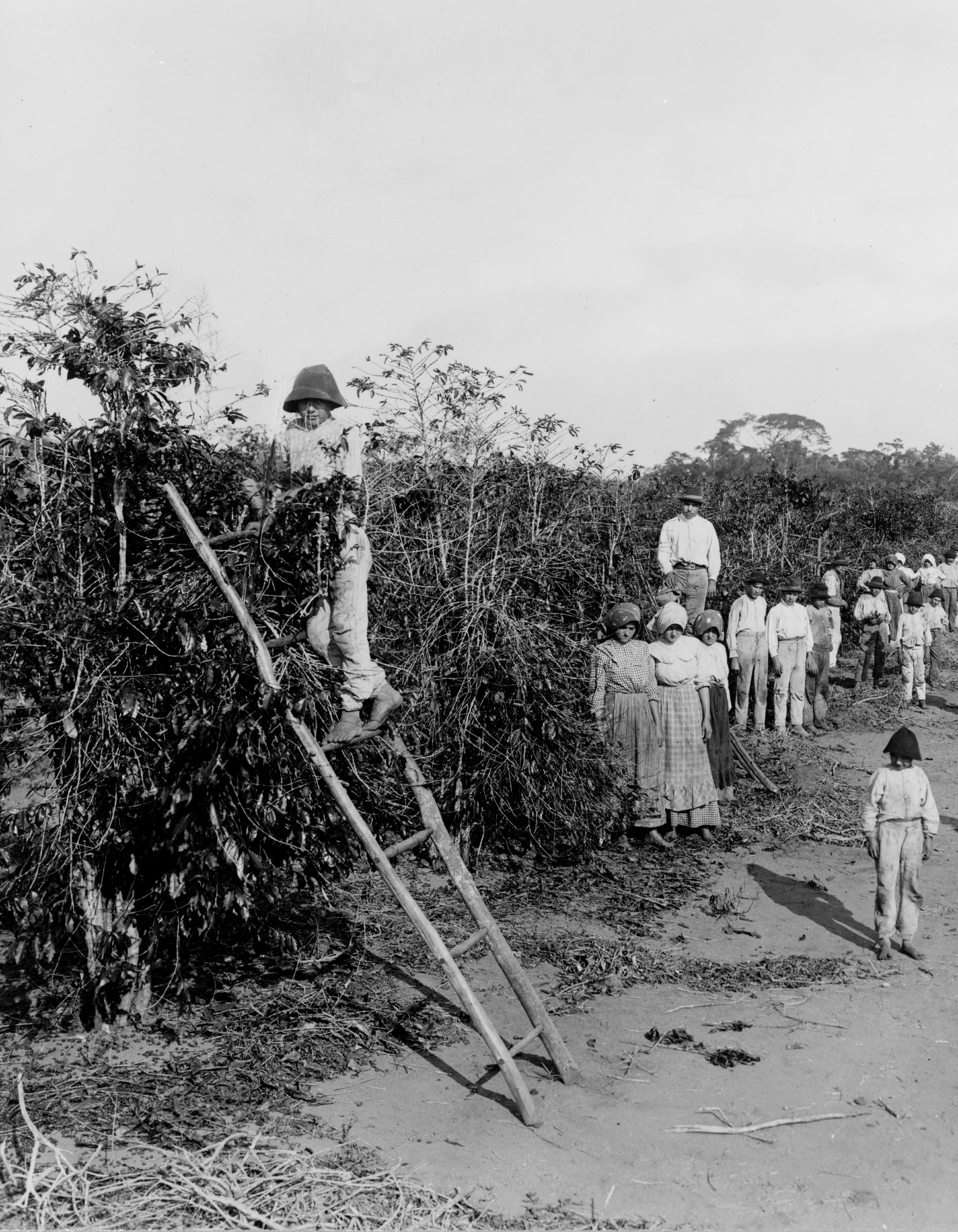 Coffee berry pickers, probably in São Paulo state inland, Brazil.